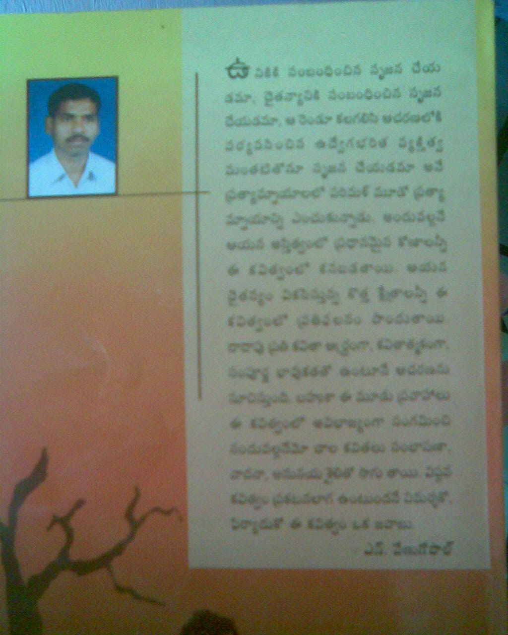 చివరి పత్రం